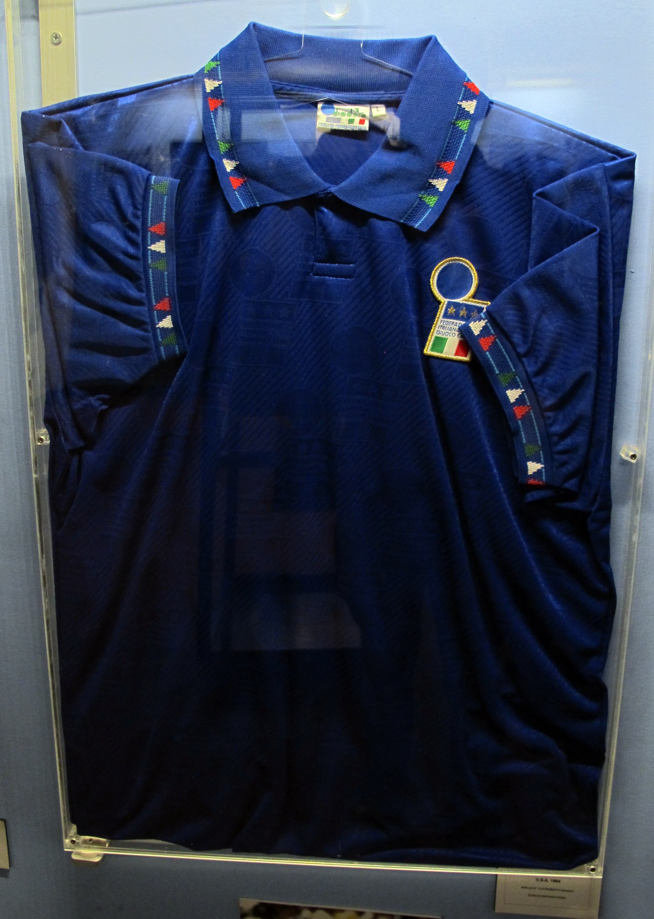 Collections of the Museo del Calcio (Florence)